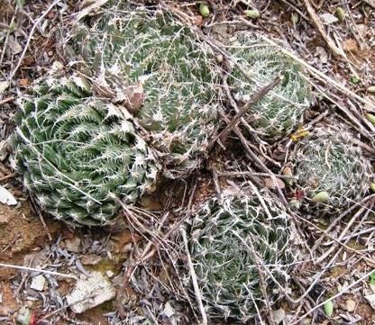 Haworthia decipiens - showing the flat, wide, semi-translucent leaves with hardly any keels. Bristles are on margins of leaves, and hardly any on the bottom faces.